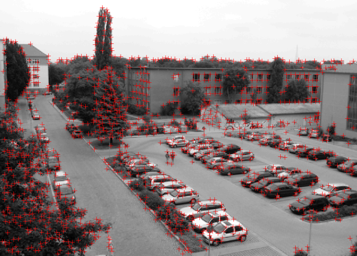 Right image with characteristic points